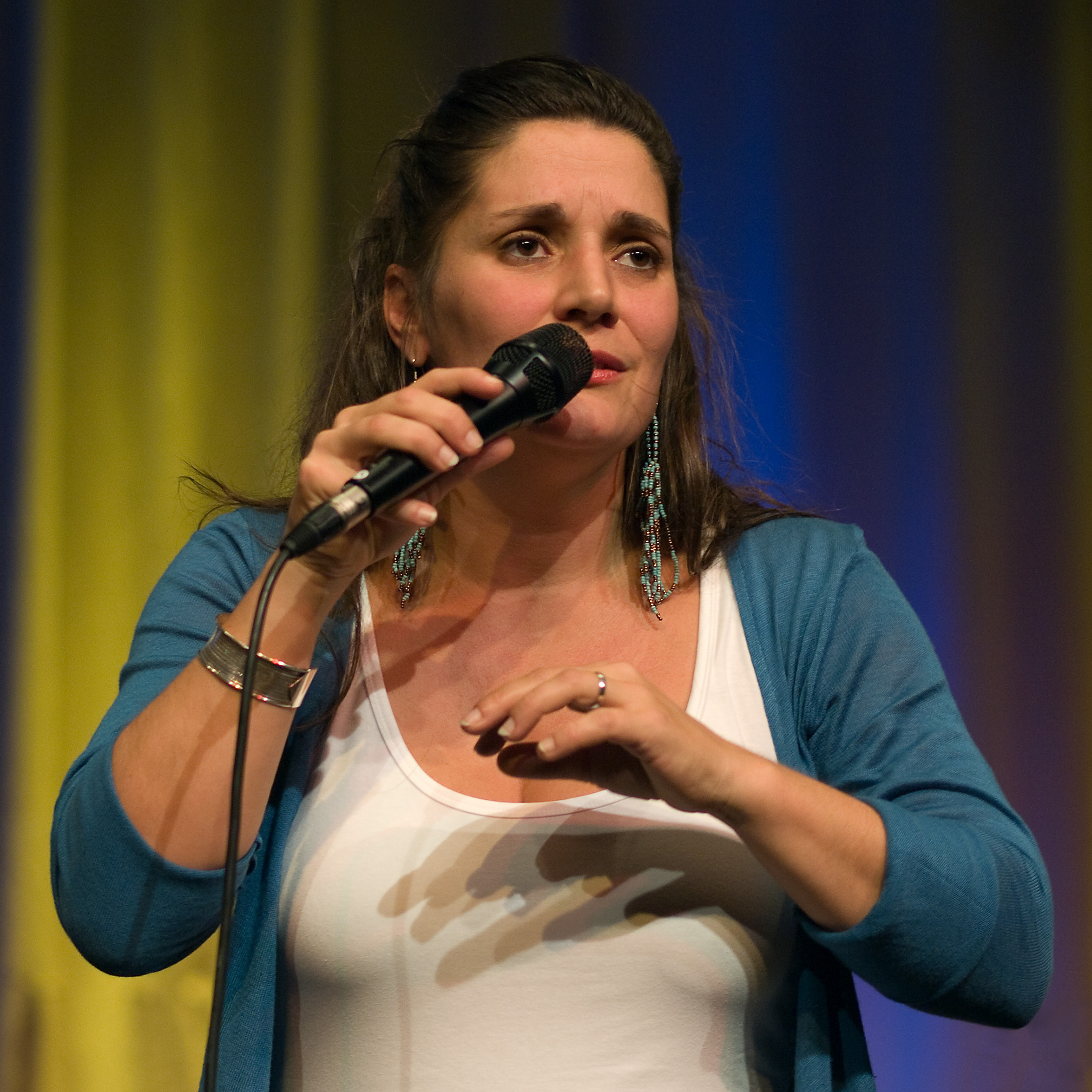 Lisette Spinnler, jazz singer; Picture taken in Studio 2, Bayerischer Rundfunk, Munich/Bavaria